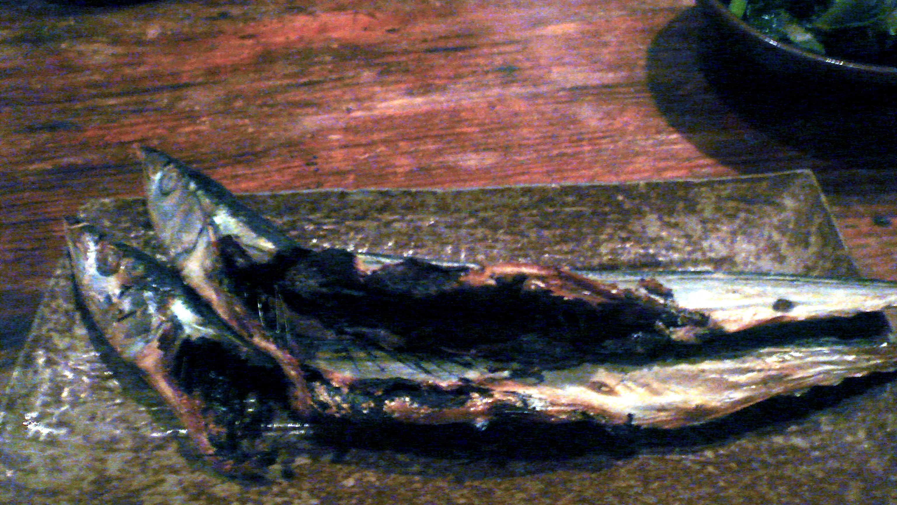 大島でくさや、焼きた (Kusaya freshly grilled, on Oshima)